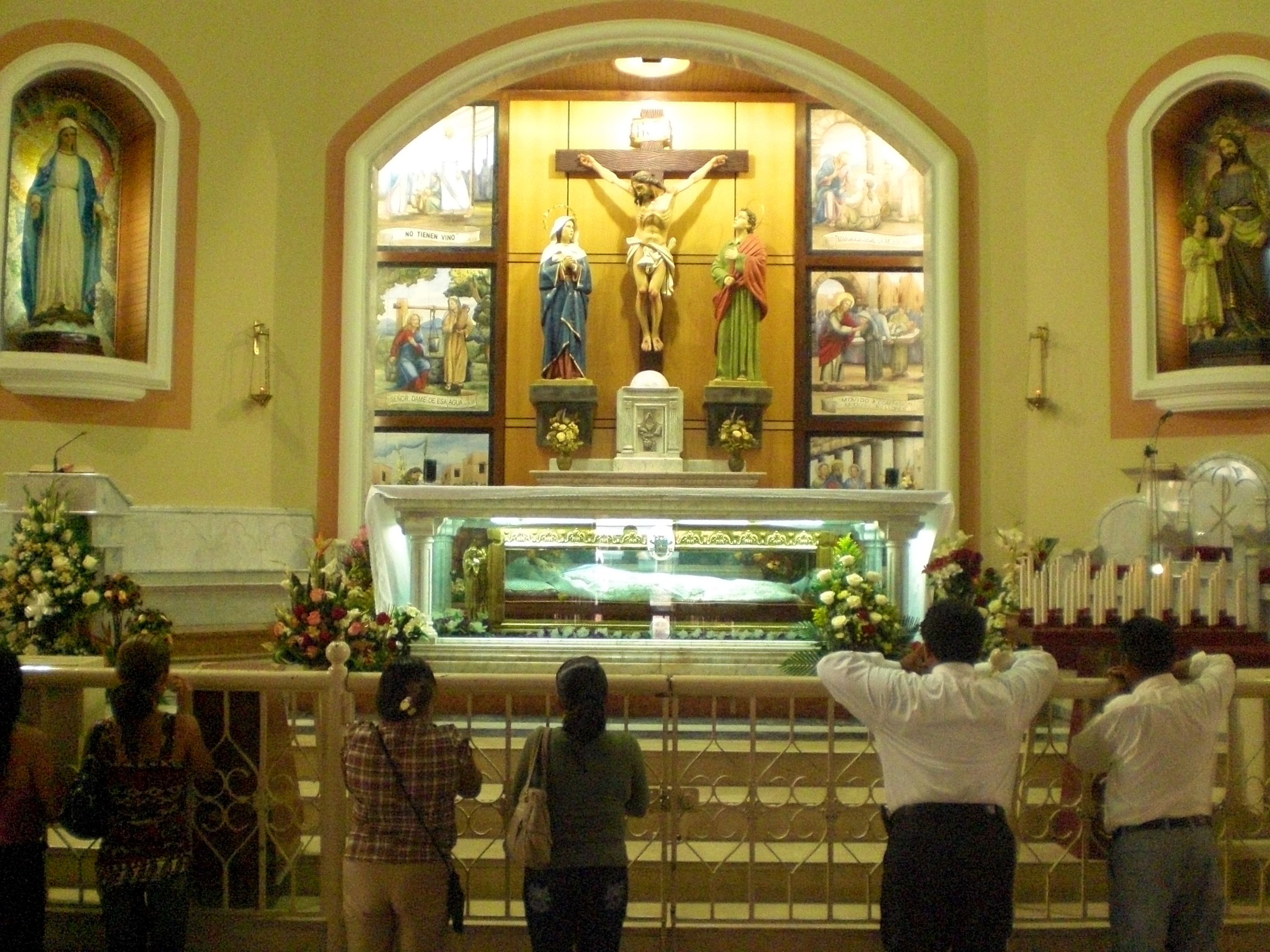 Saint Narcisa de Jesús lying in repose at the Santuario de Santa Narcisa de Jesus Martillo y Morán in Nobol, Ecuador